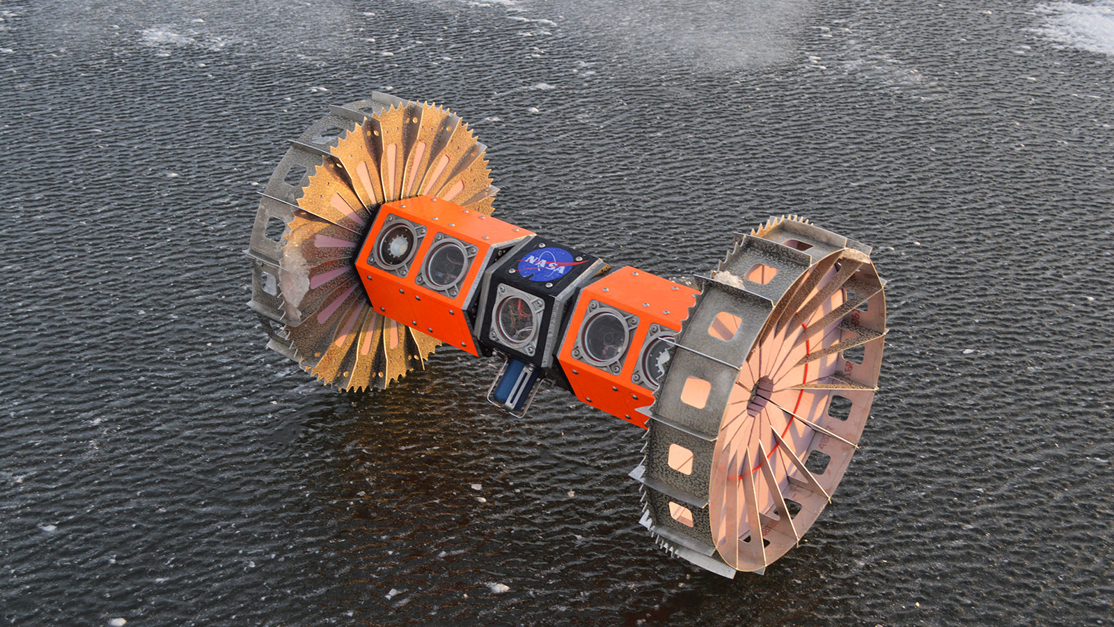 BRUIE (Buoyant Rover for Under-Ice Exploration) is an underwater rover prototype by NASA's Jet Propulsion Laboratory. The rover began testing in the Arctic in 2015 and it is meant to eventually explore the interior ocean of water worlds in the Solar System. BRUIE is buoyant and uses its two wheels to roll along beneath the ice and look for life.